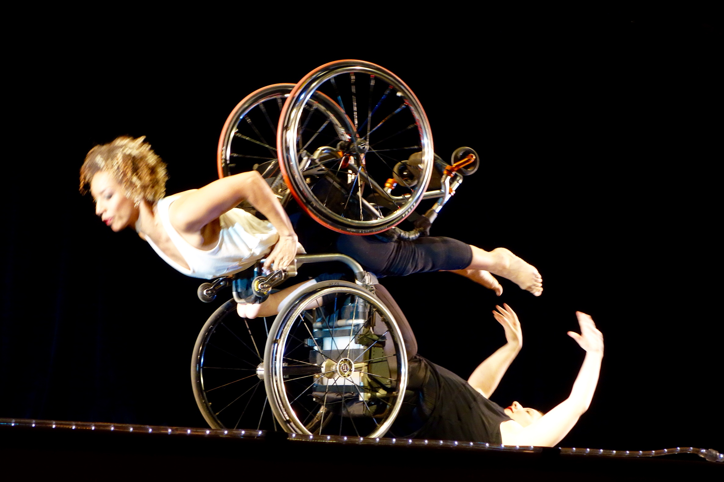 "Excerpt from Snapshot (Minsky's Burlesque, New Jersey, ca. 1954)" - Performed and choreographed by Alice Sheppard and Laurel Lawson, with the permission of Full Radius Dance. Directed and Costumes by Douglas Scott. Photograph taken at "Counter Balance VI - An integrated dance concert that celebrates 25 years of the Americans with Disabilities Act," presented by Access Living, Bodies of Work and Momenta Dance Company, at the National Museum of Mexican Art, 1852 West 19th Street, Chicago, Illinois. September 19, 2015. View more of my photos at